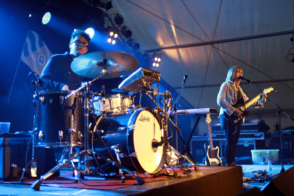 Wye Oak performing in 2014